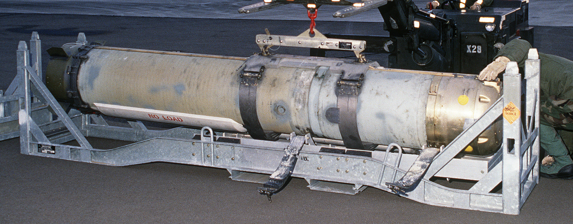 Mark 60 CAPTOR (encapsulated torpedo) anti-submarine mine at LORING AFB, MAINE